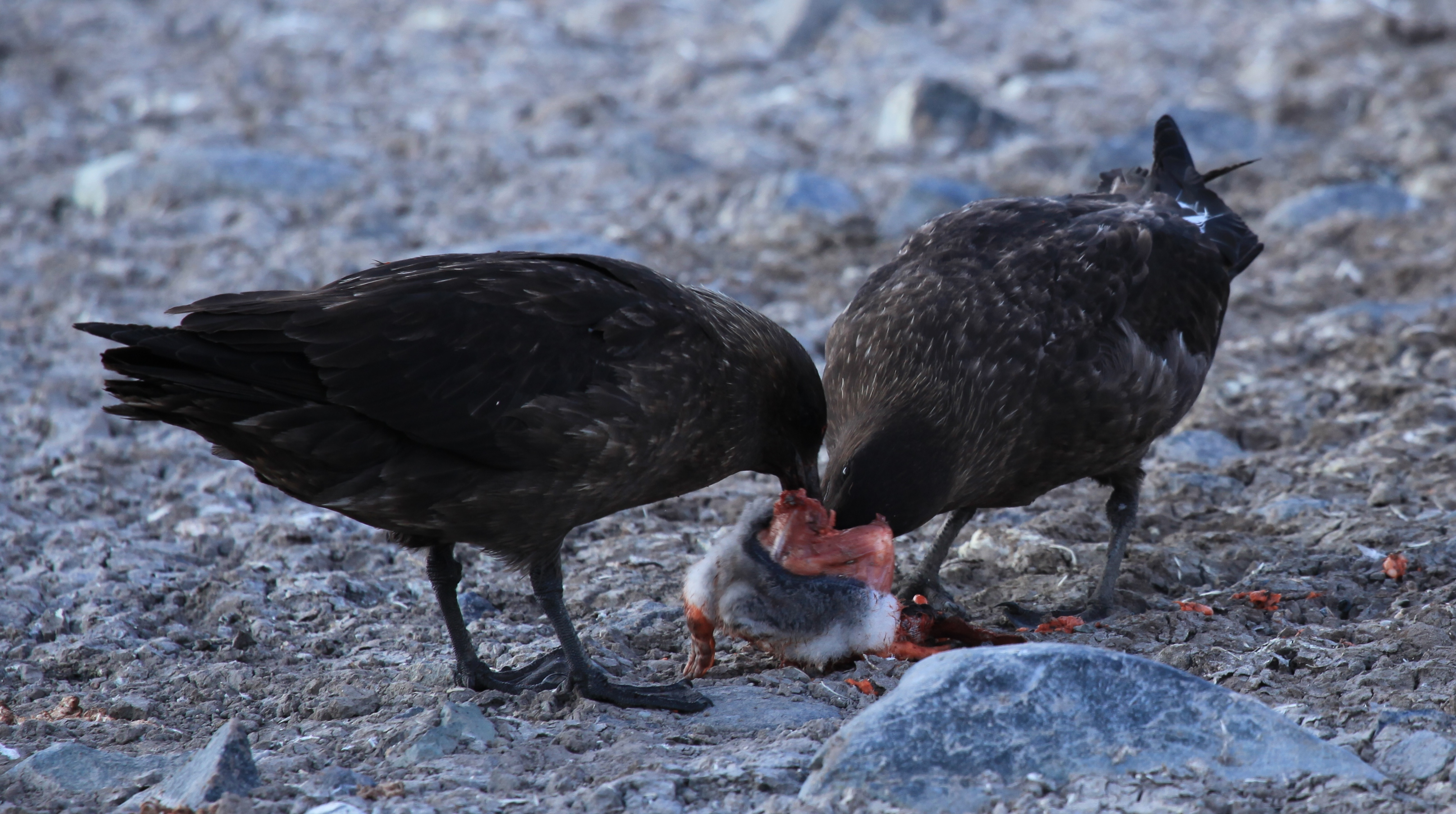 Brown Skuas tear apart a dead Gentoo Penguin chick At Jougla Point, Antarctica.